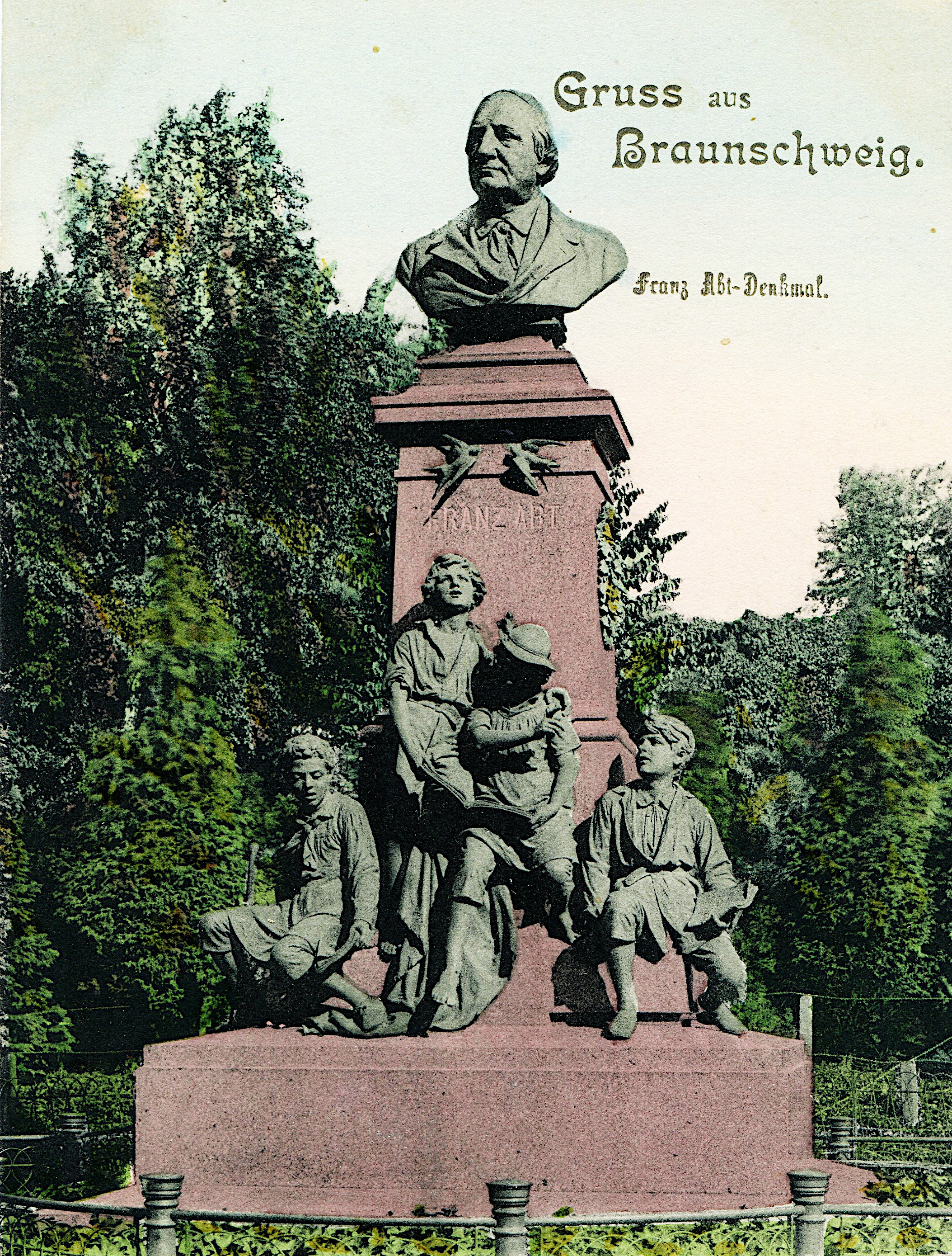 Photography, reproduced as colorized postcard No. 491, published by Zedler & Vogel, electronically enhanced with Gimp 2.10 by Werner Wiese. Monument of composer and kapellmeister Franz Abt in Brunswick, dedicated July 13, 1891; melted down for its material to support the war machine during WW II. Design by Carl Friedrich Echtermeier (* 1845; † 1910), cast in bronze by Hermann Heinrich Howaldt (*1841; †1891). The swallows on the monument’s base are reminiscent of a well-known song composed by Franz Abt: When the Swallows Homeward Fly.